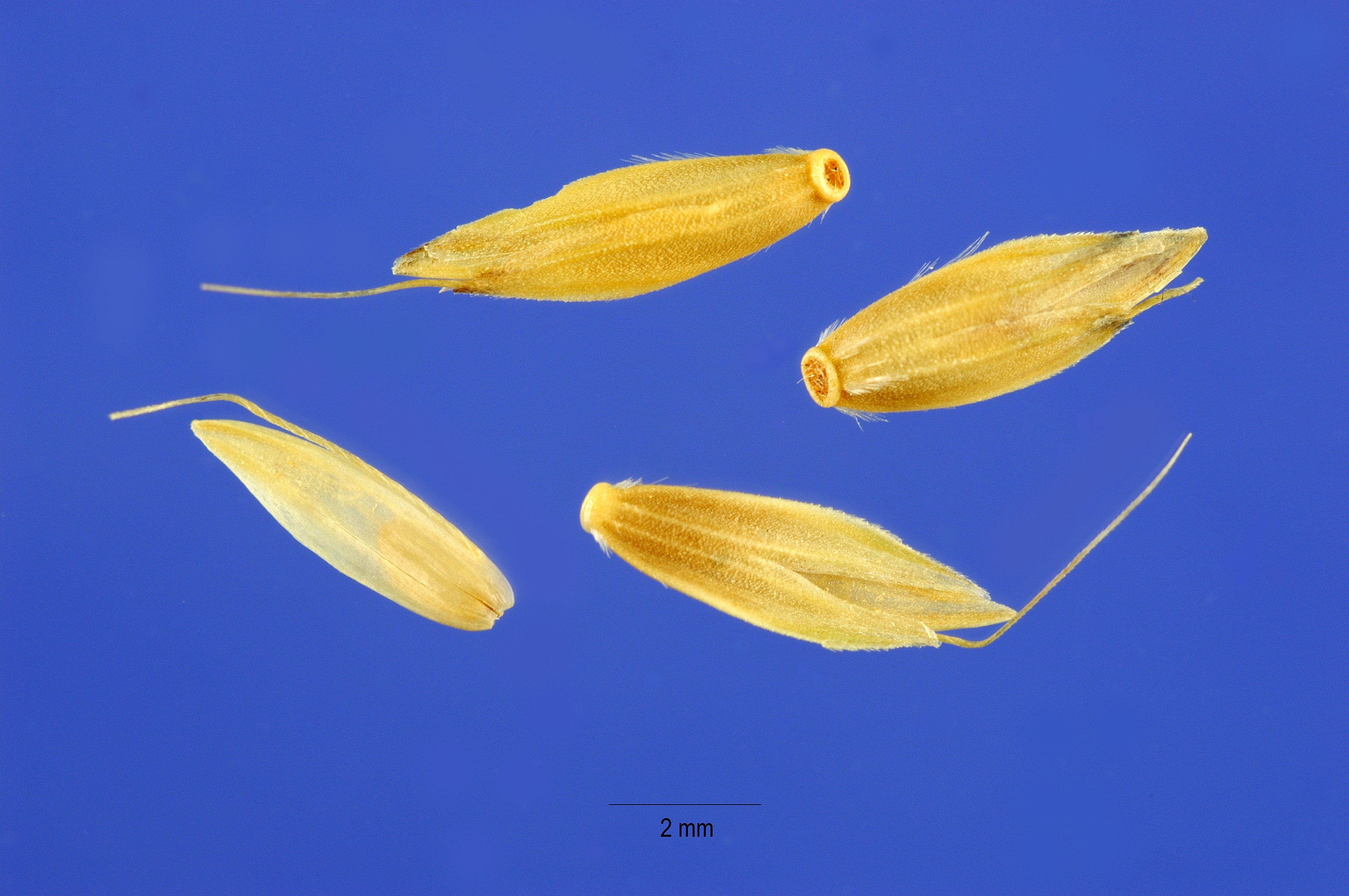 Alopecurus myosuroides seeds